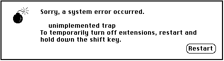 Classic MacOs Syserror